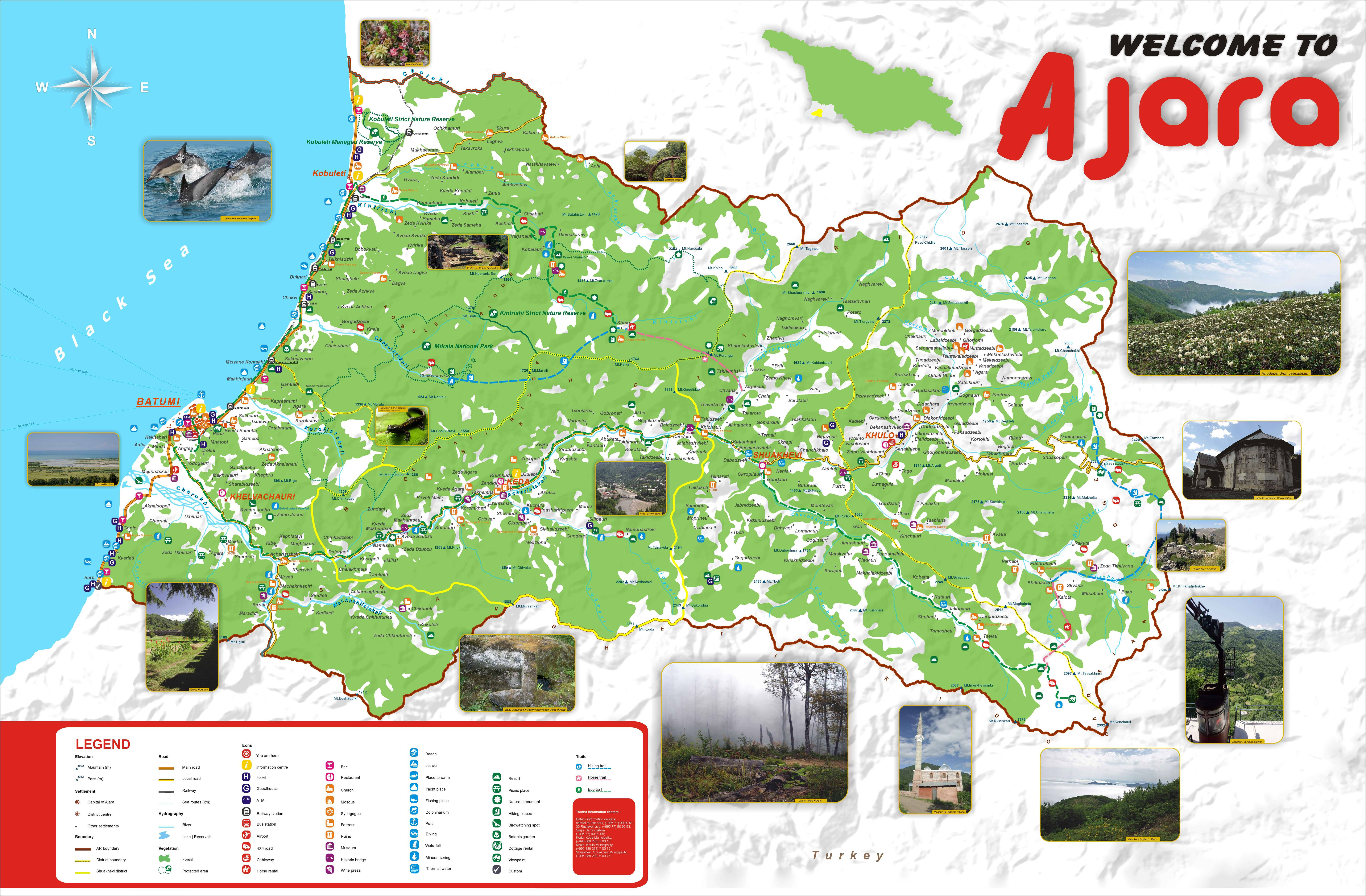 Map_of_adjara